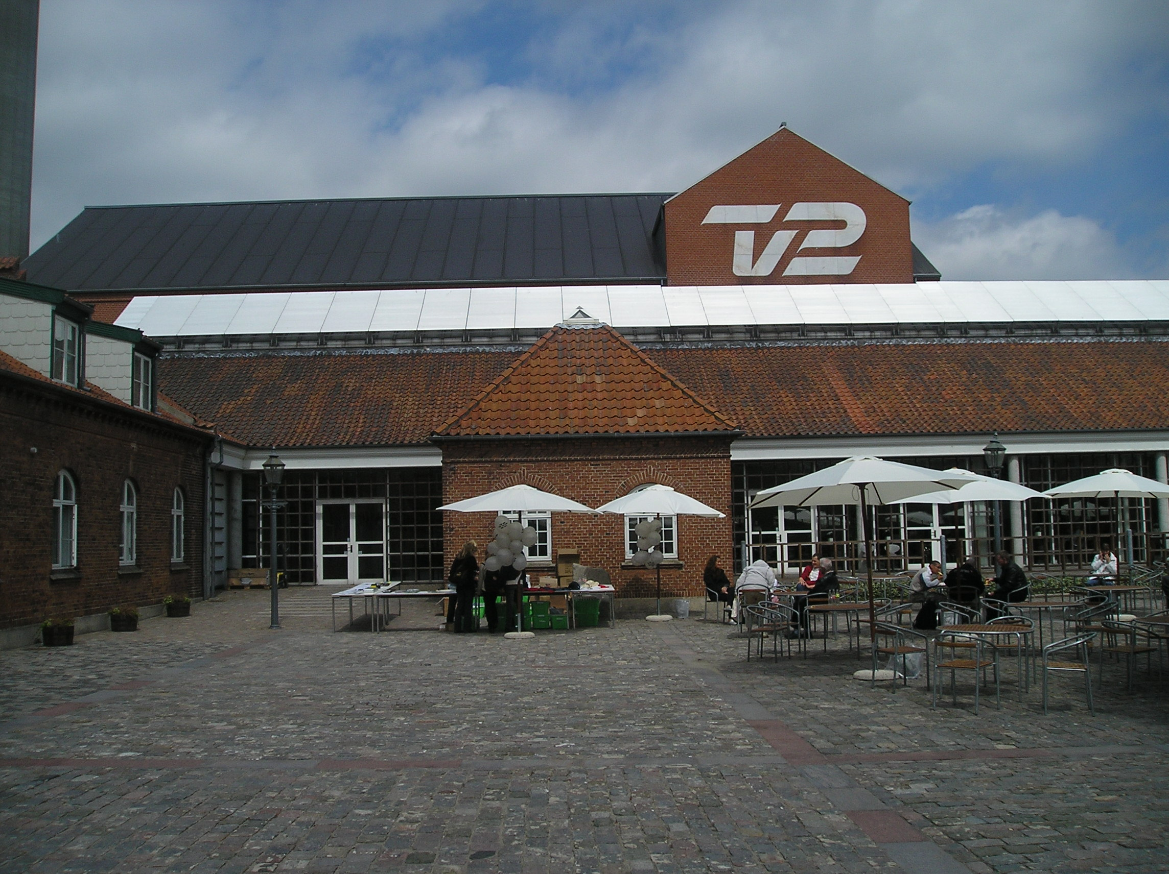 Danish television station TV 2's headquartier Kvægtorvet in Odense.